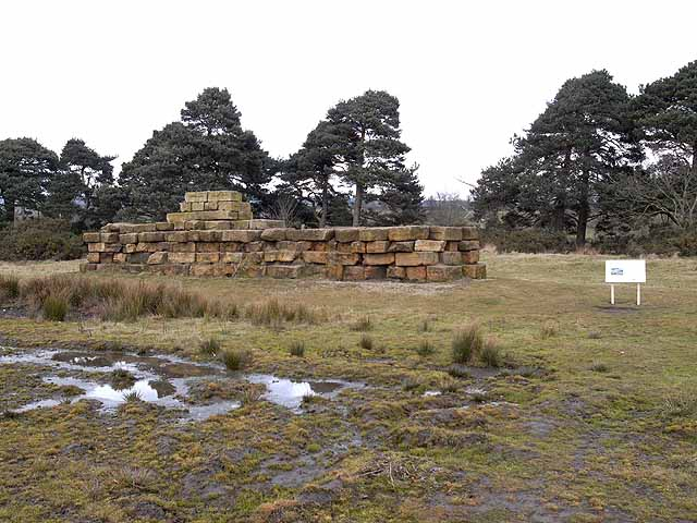 Roman bridge at Corbridge These massive blocks of dressed stone formed part of the original ramp leading to the Roman bridge at Corbridge (some way upstream from the present bridge). In 2004, they were rescued from the bed of the river and re-erected some distance from the original site.